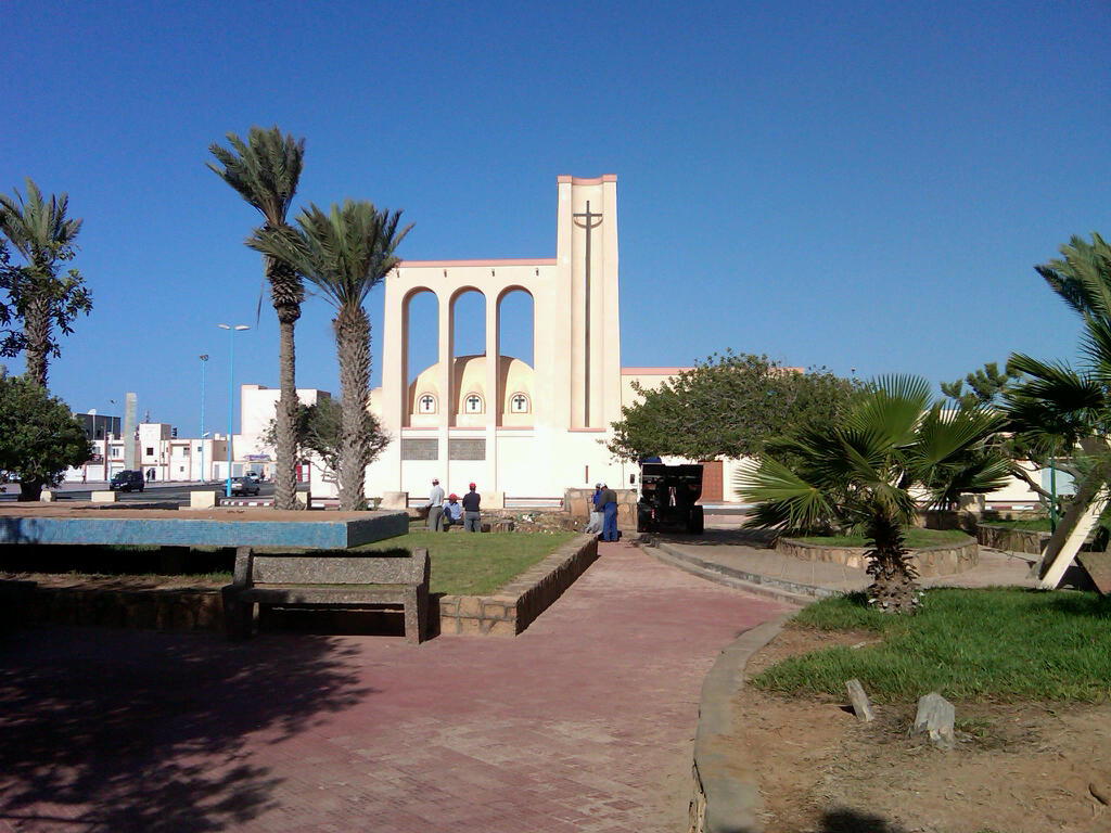 Church in the center of Dakhla, Western Sahara (Morocco).